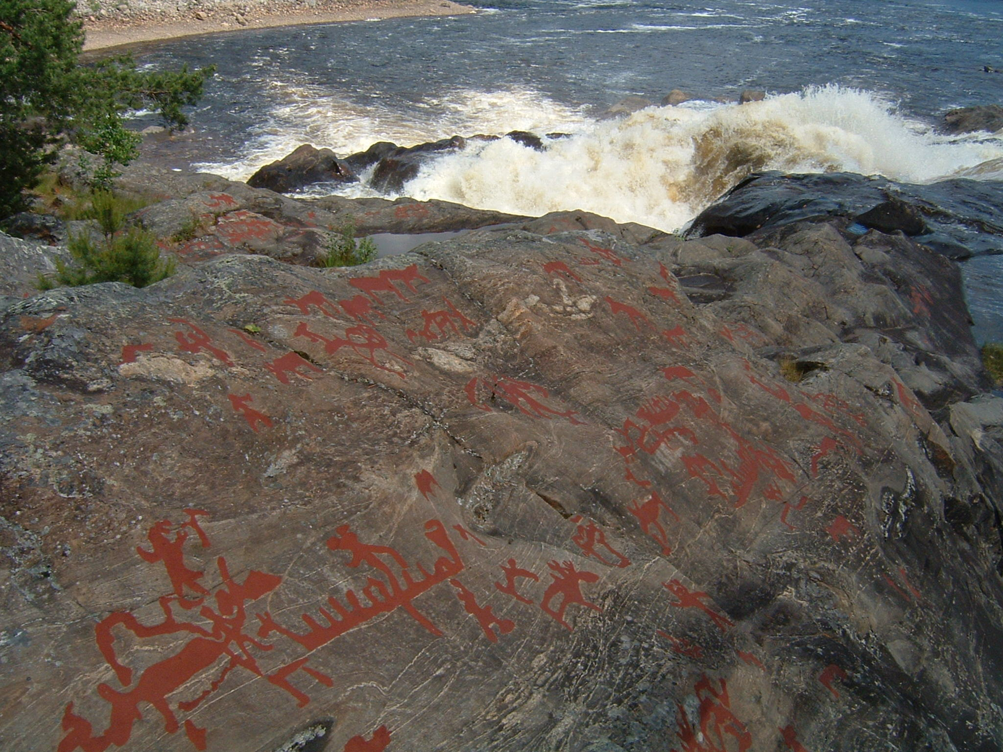 Petroglyphs (rock carvings) at Nämforsen, Ångermanland, Sweden